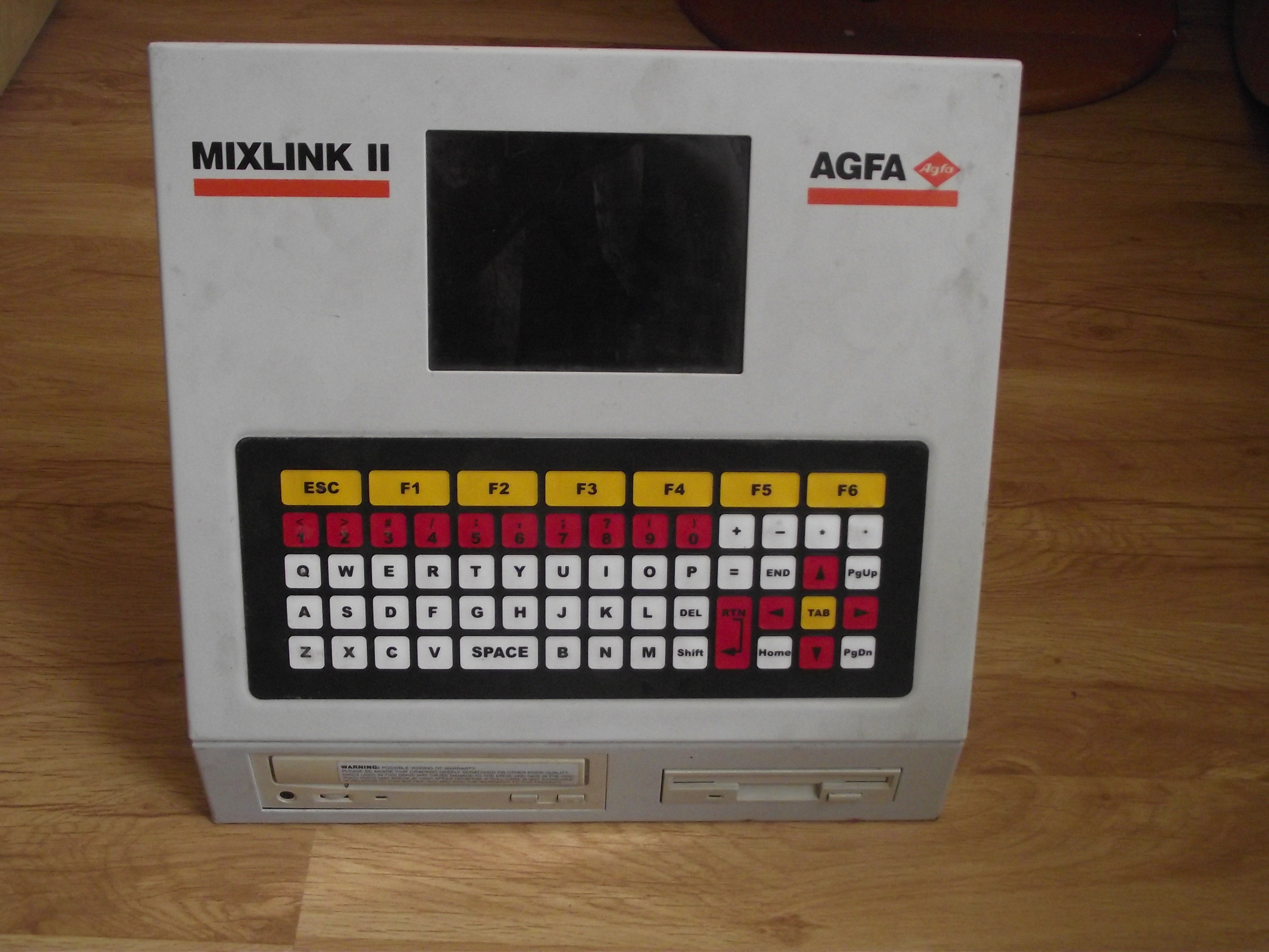 The picture illustrates Mixlink computer.